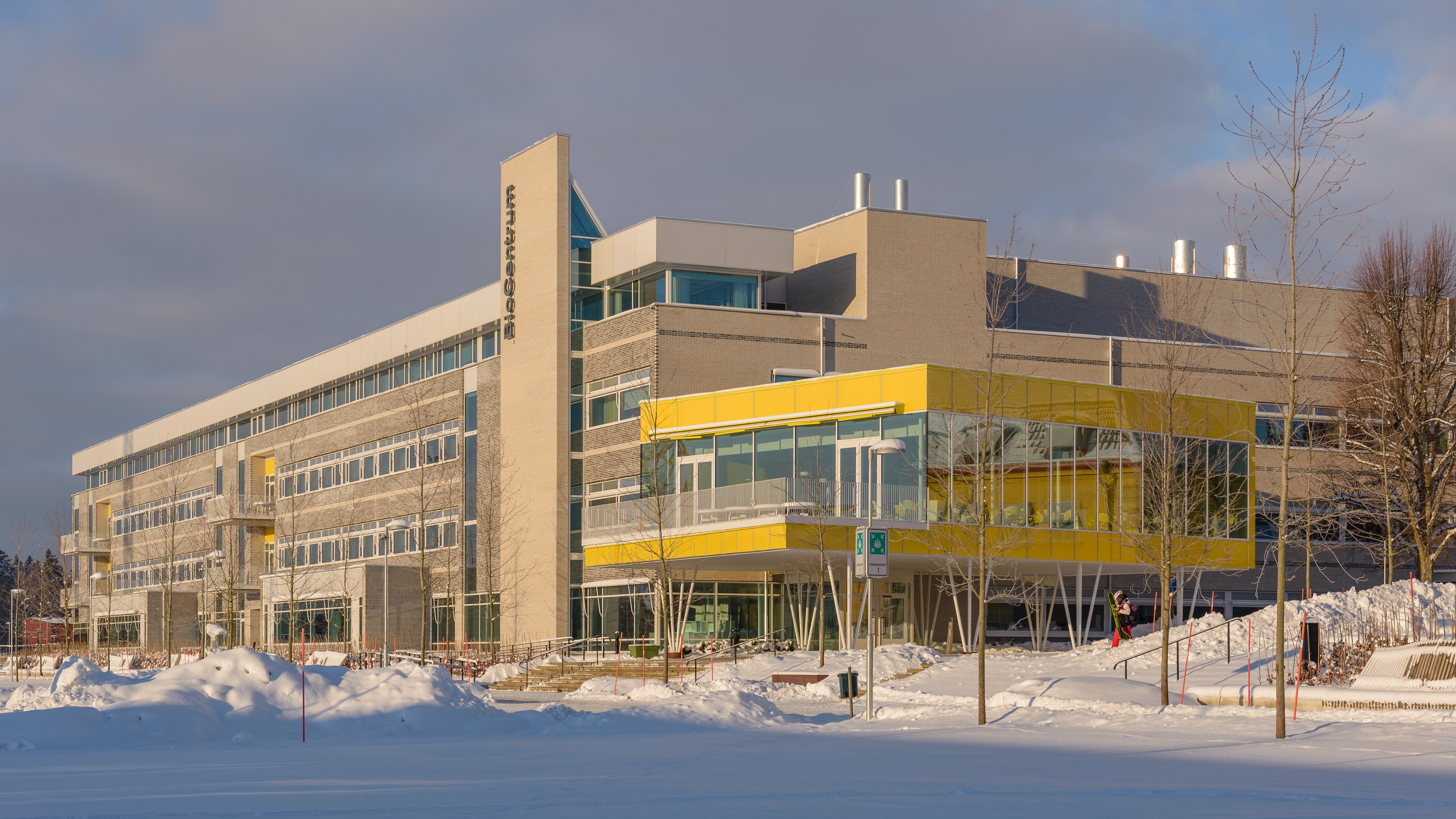 Biocentrum. Swedish University of Agricultural Sciences, Ultuna campus, Uppsala. Architects: Bjurström & Brodin Arkitekter AB.